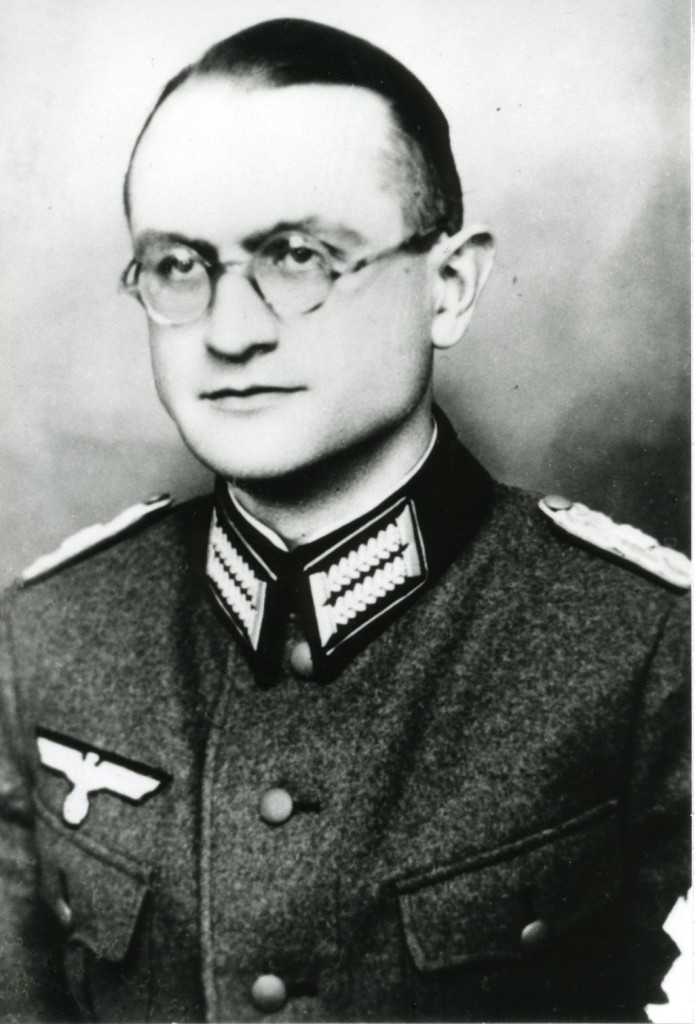 Deutsche Jurist Erich Schwinge (1903-1994)